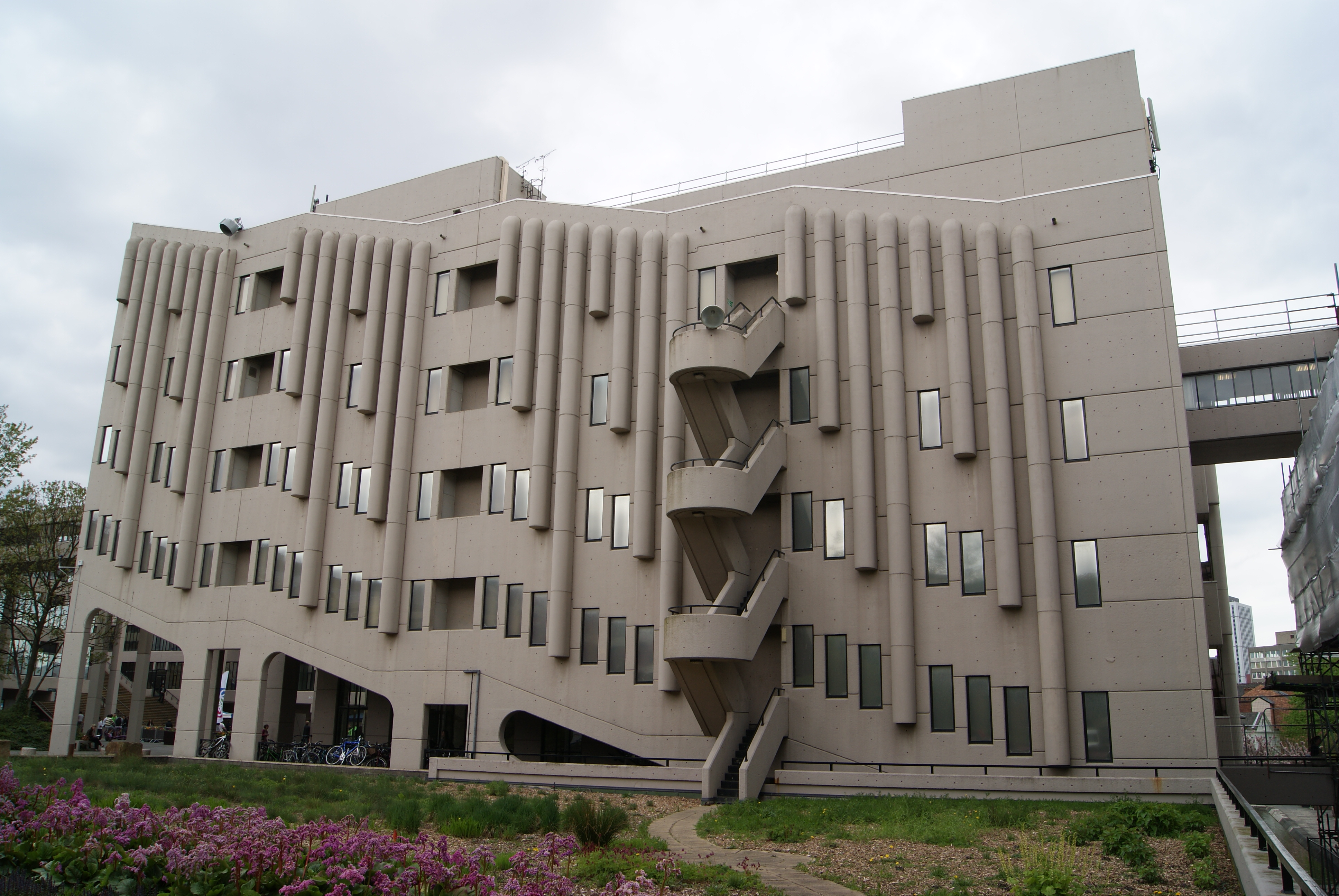 The Roger Stevens Building at the University of Leeds. Taken on the afternoon of Tuesday the 4th of May 2010.